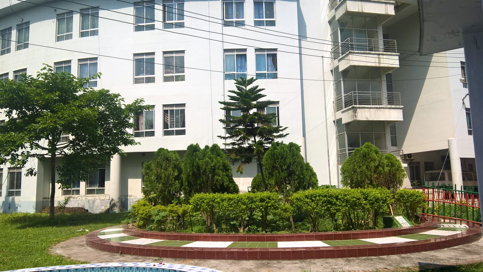 Rajshahi Nursing College is one of the Government Nursing College affiliated by Rajshahi University.